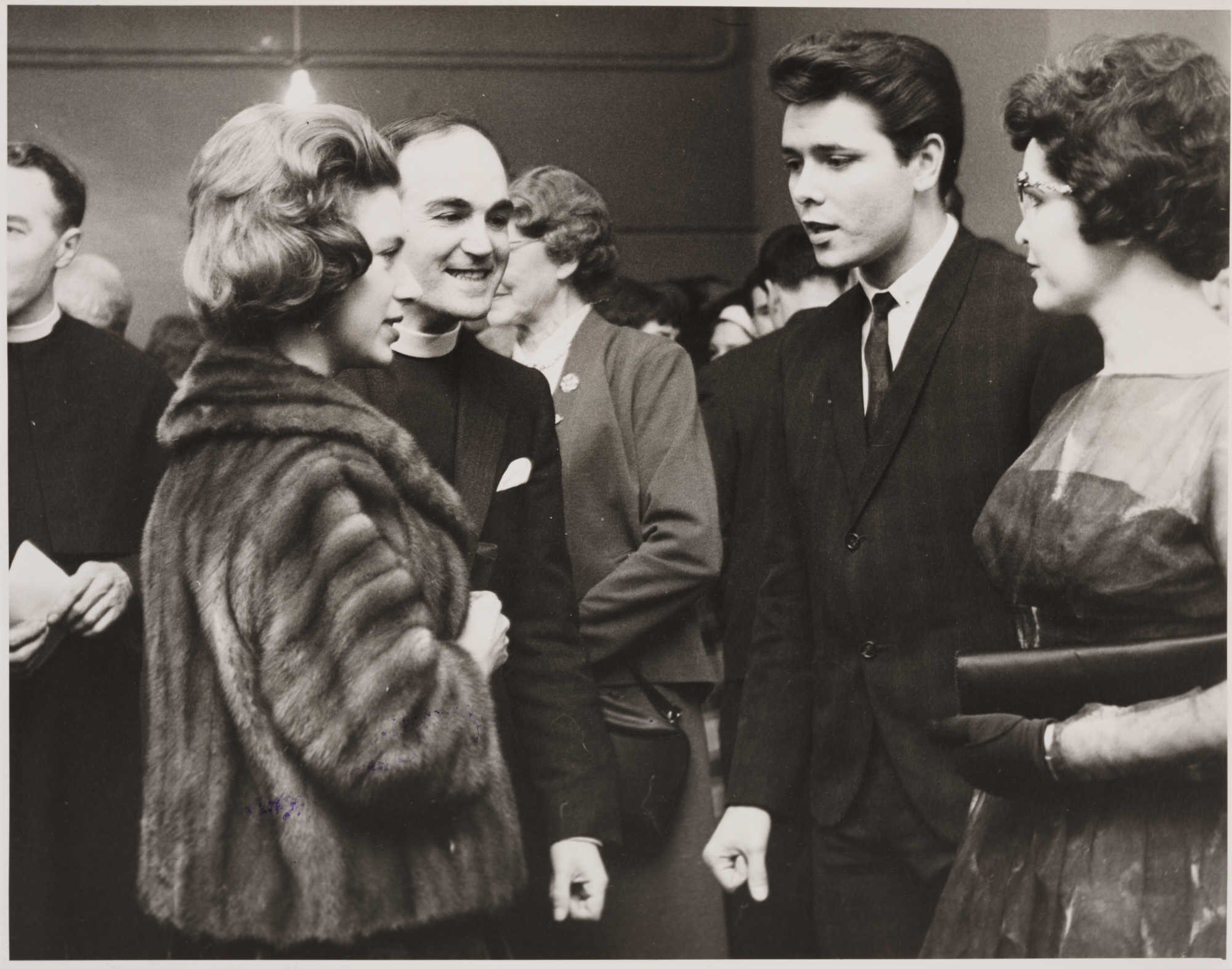 Daily Herald Archive at the National Media Museum Princess Margaret (1930-2002) is the younger sister of our current Queen, Elizabeth II. Sir Cliff Richard OBE is a British singer who has enjoyed a 53 year long career winning 3 Brit Awards and 2 Ivor Novello Awards. This photograph has been selected from the Daily Herald Archive, a collection of over three million photographs.